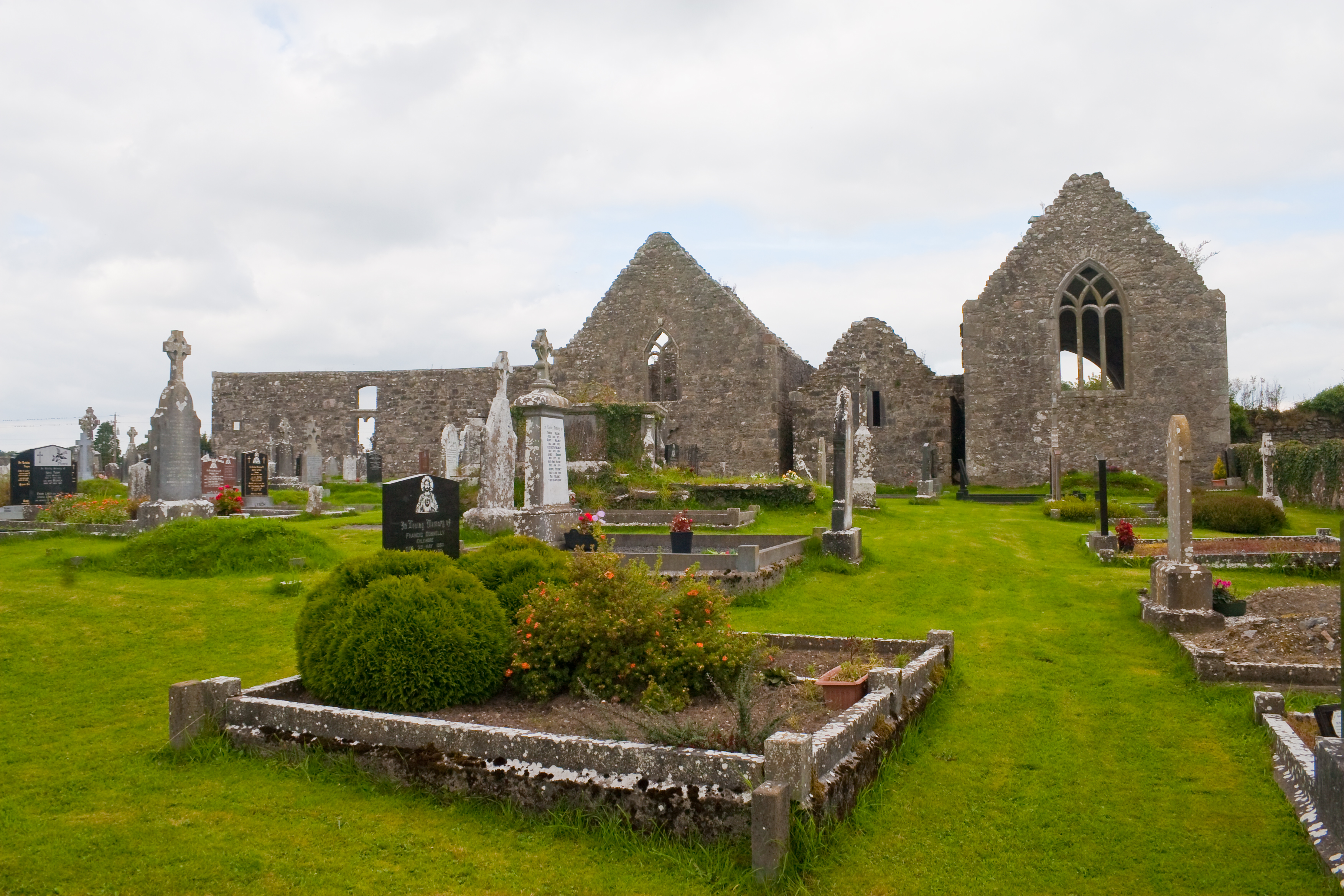 Kinalehin Friary, County Galway, Ireland South range of Kinalehin Friary.